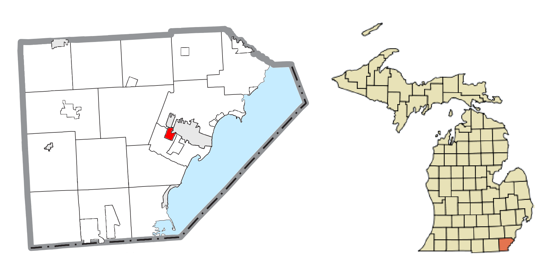 West Monroe, MI